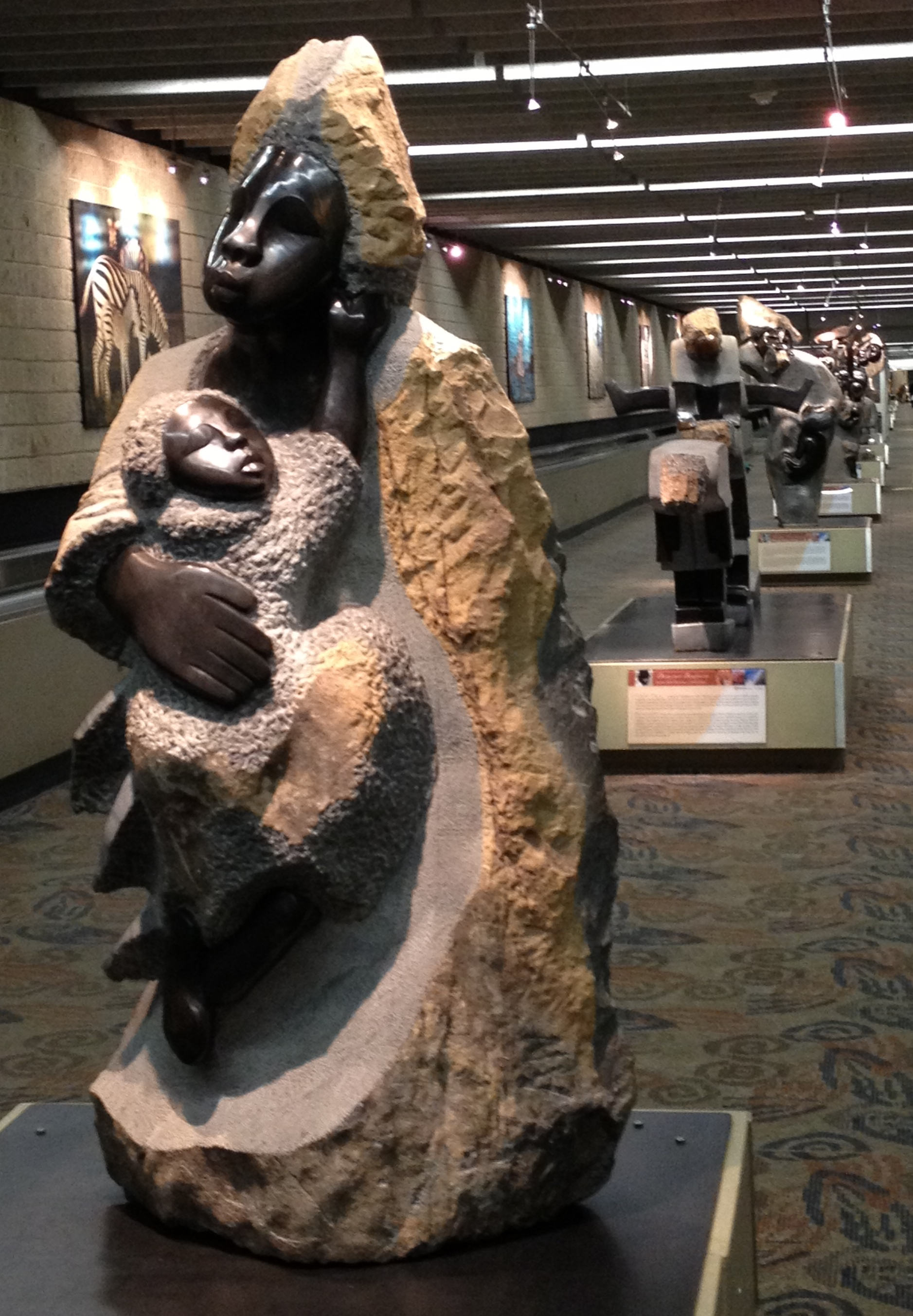 Exhibit "Zimbabwe sculpture: a tradition in stone" at Atlanta airport on walkway between T and A terminals